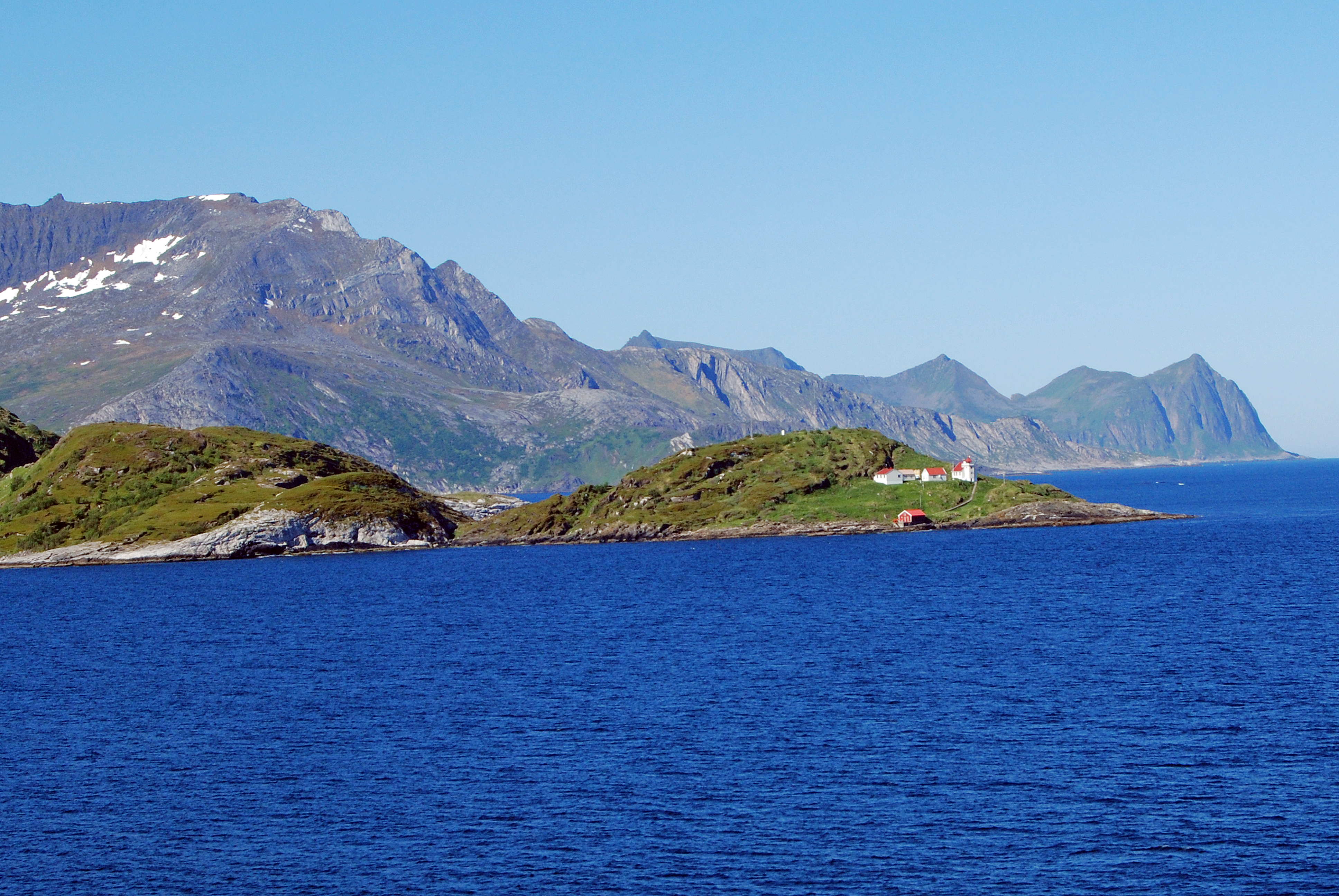 Now well north of the Arctic Circle we navigate the Norwegian Sea towards the Malangen Fjord / Hekkingen Lighthouse (Hekkingen fyr), a coastal lighthouse located on the small island of Hekkinga at the southern side of the entry into Malangen fjord.